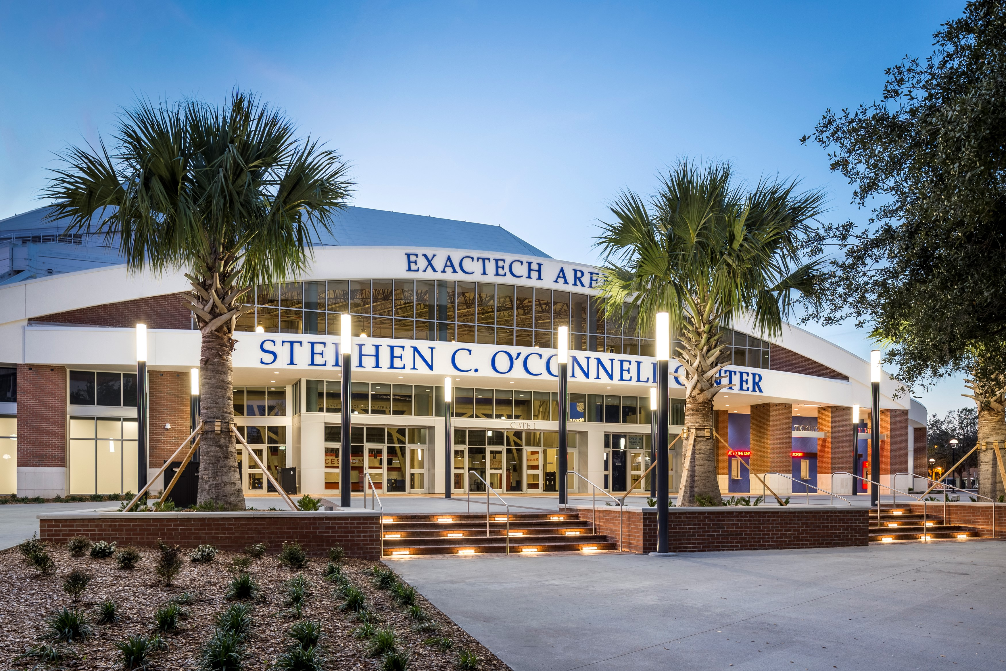 Front of the O'Dome (Post-renovation, 2017)